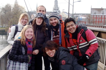 International Students làm bằng cao đẳng nghề giá rẻ giúp hoàn thiện hồ sơ gốc dễ dàng kiếm việc làm. Bằng tốt nghiệp cao đẳng giả được làm giống thật 100% từ phôi thật của trường.